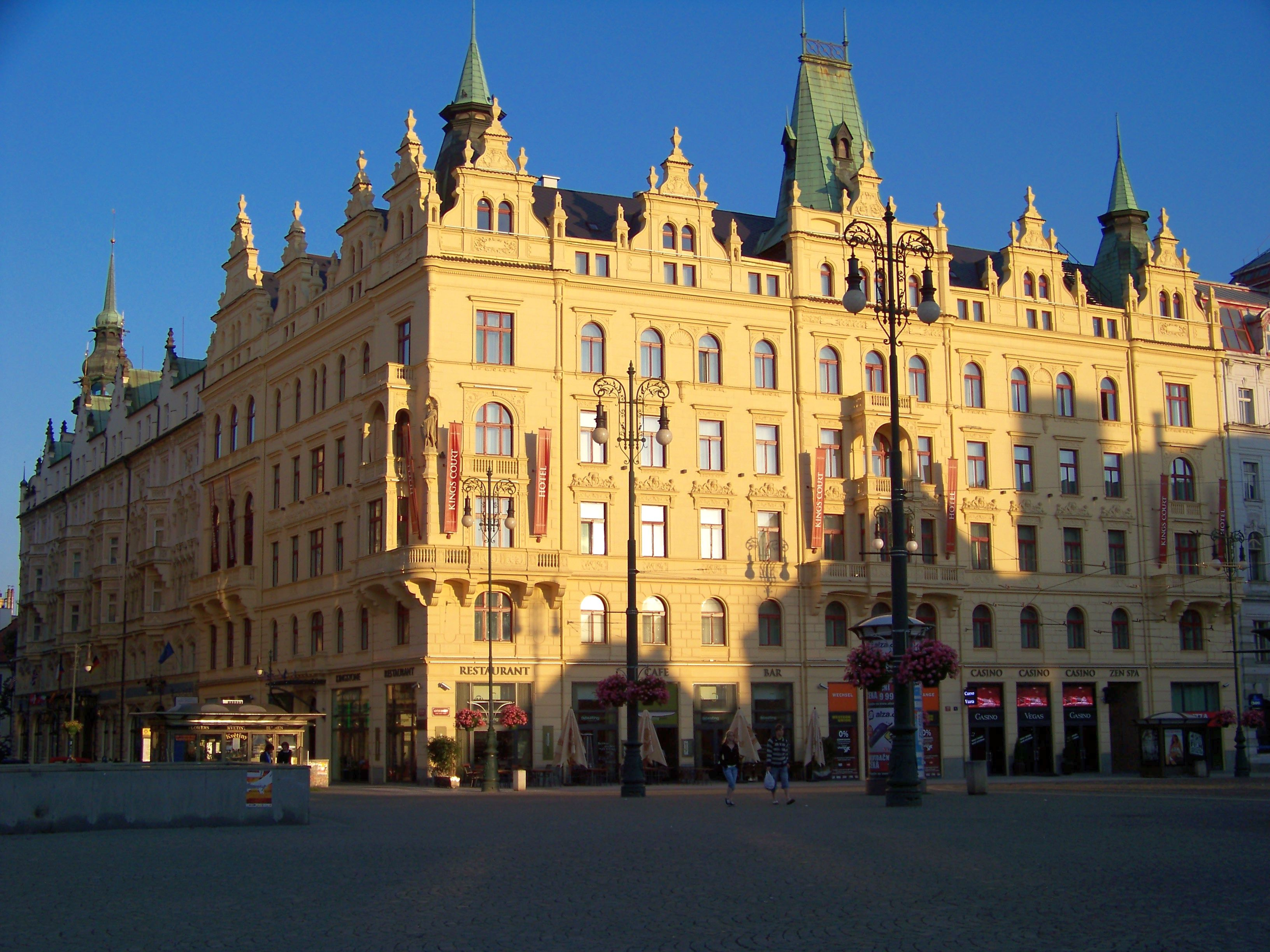 New Town and Old Town, Prague, the Czech Republic. Republic Square.